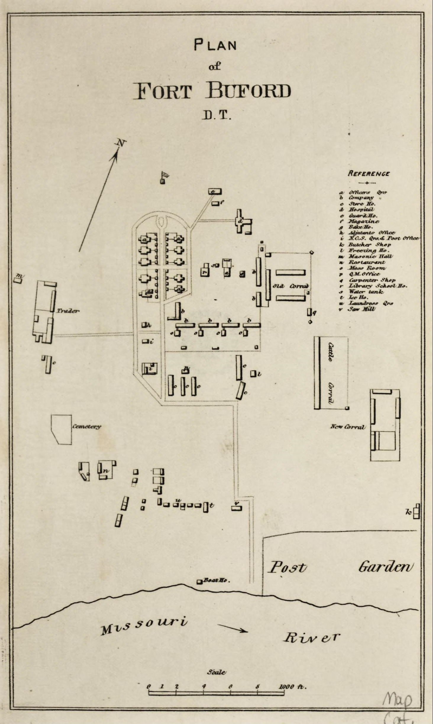 Map showing plan of Fort Buford, Dakota Territory, established June 15, 1866. Surveyed July, 1873. Seven sets of barracks